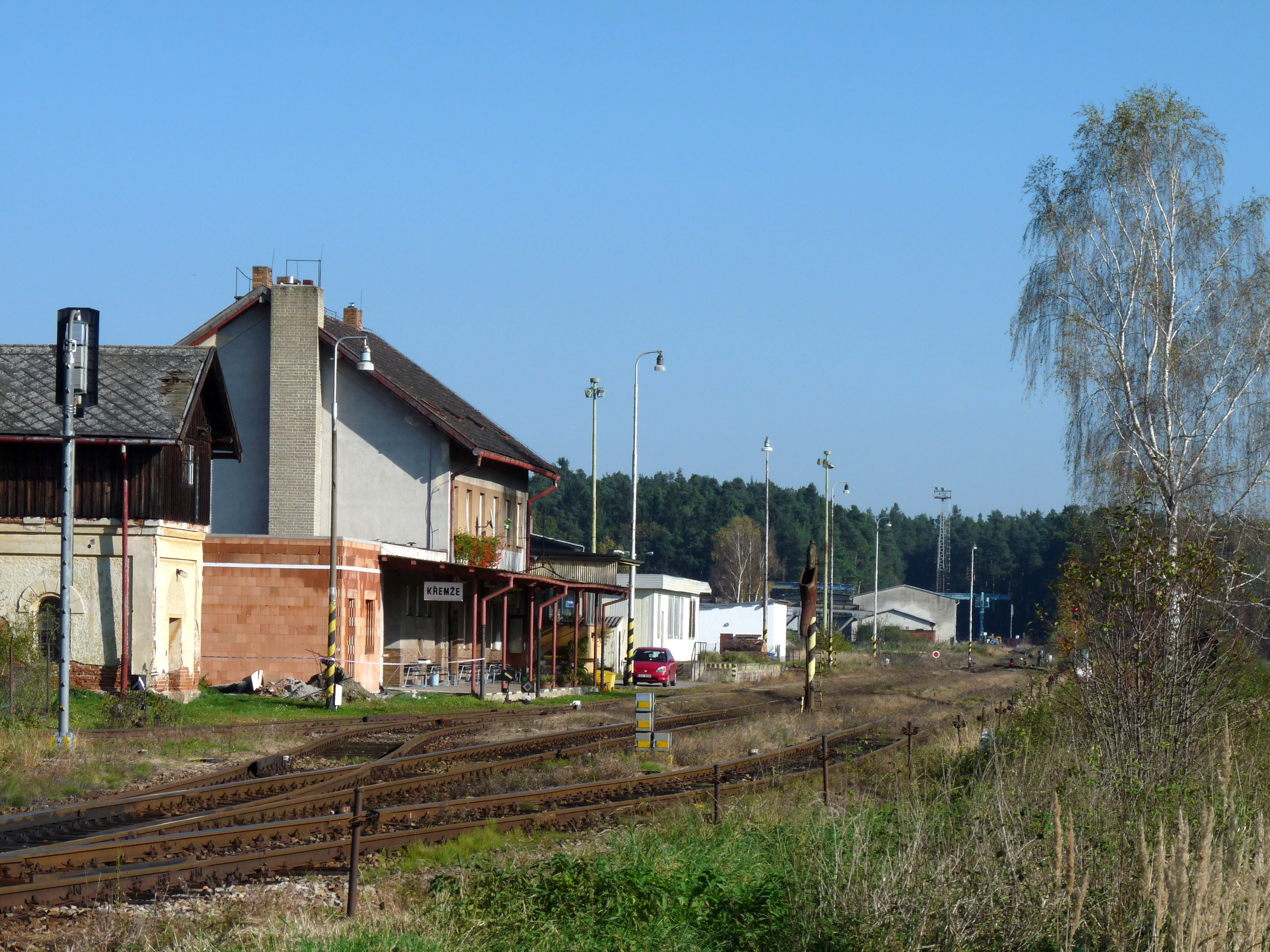 Train station Křemže in the village of Mříč, Český Krumlov District, South Bohemian Region, Czech Republic.